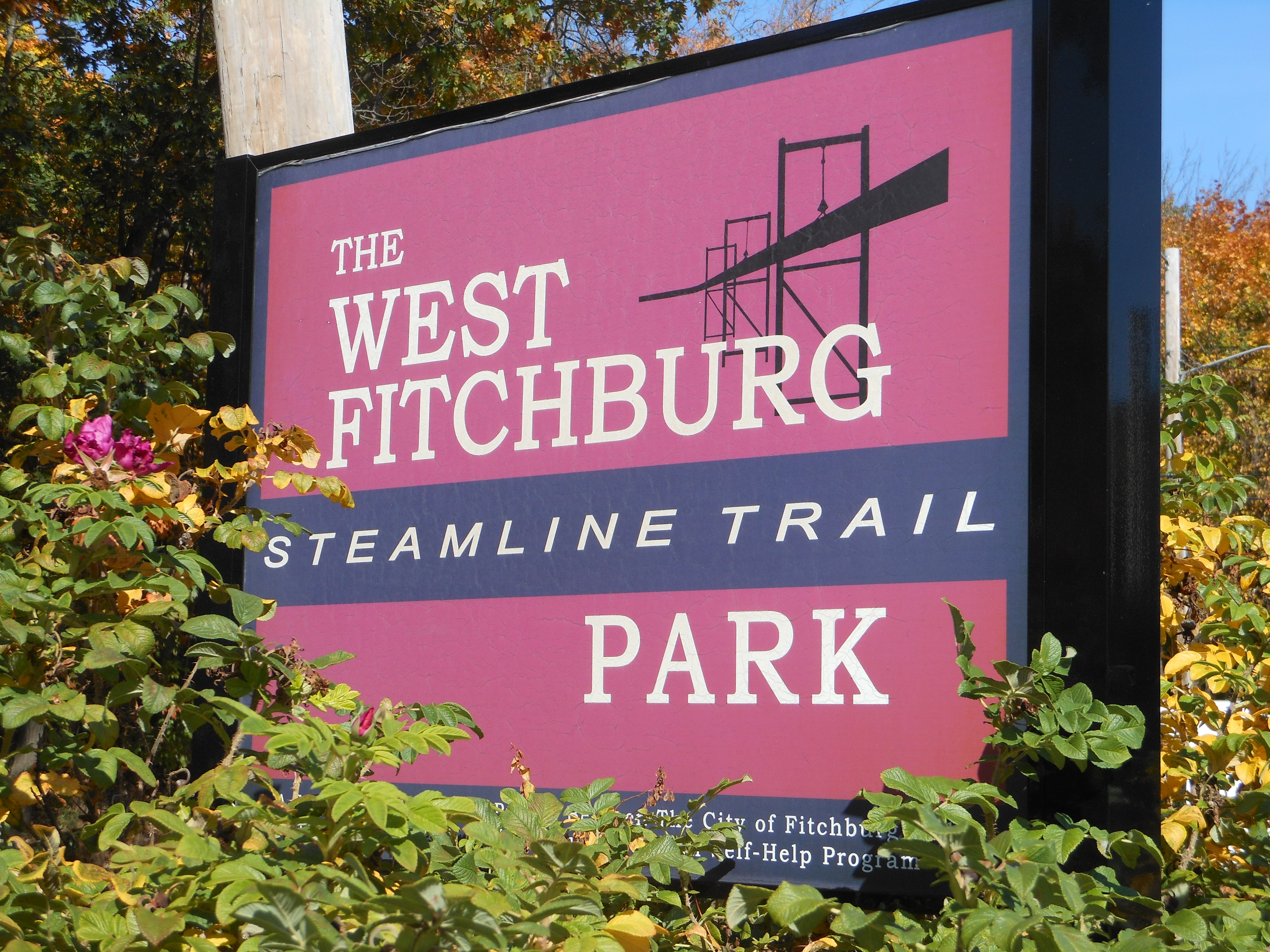 Fitchburg Steam Line Trail Park, West Fitchburg, Massachusetts